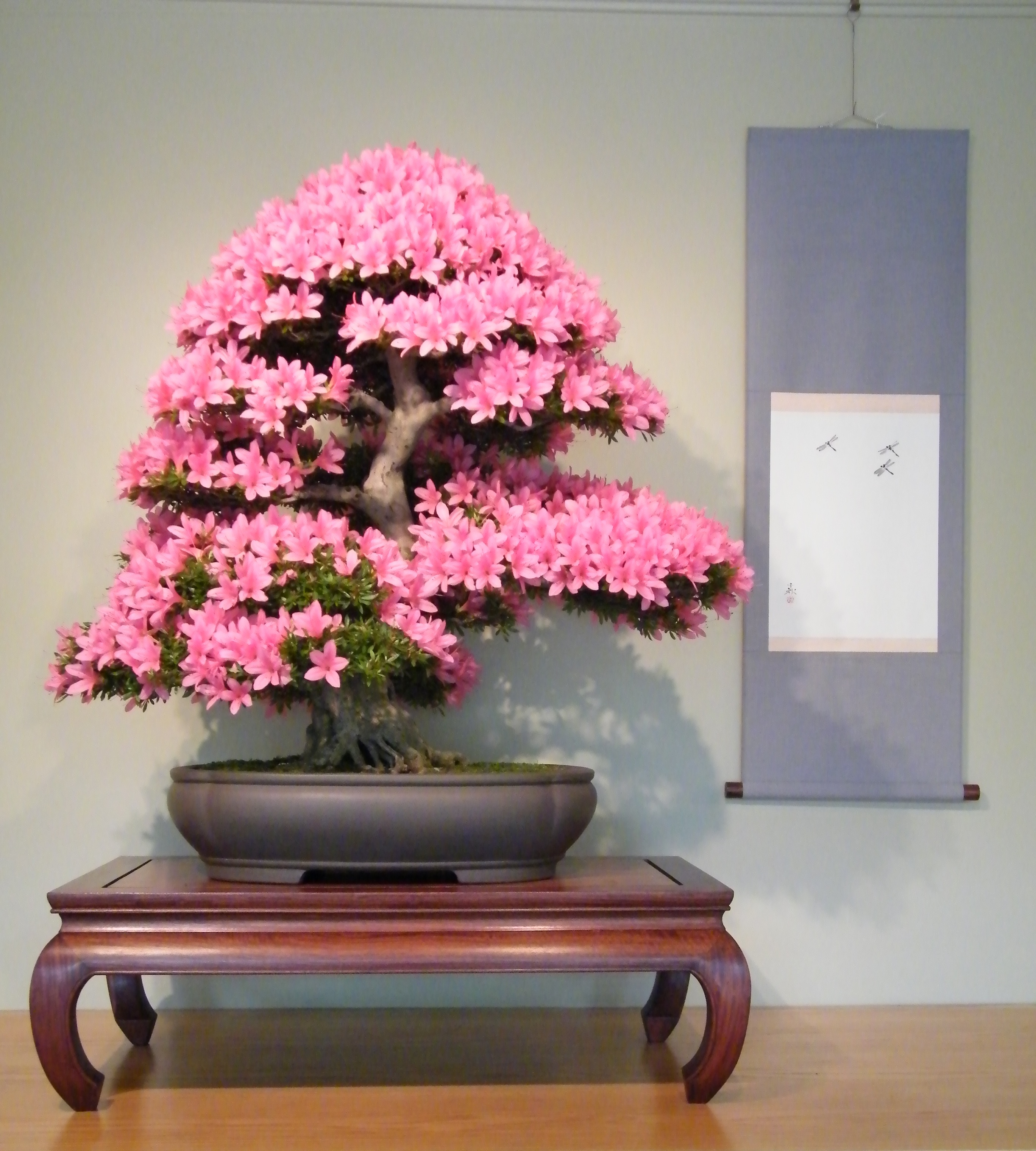 Satsuki Azalea on special exhibition at the National Bonsai & Penjing Museum. It is in the Japanese Collection, #71. The age is unknown and it was donated by Shogo Watanabe.